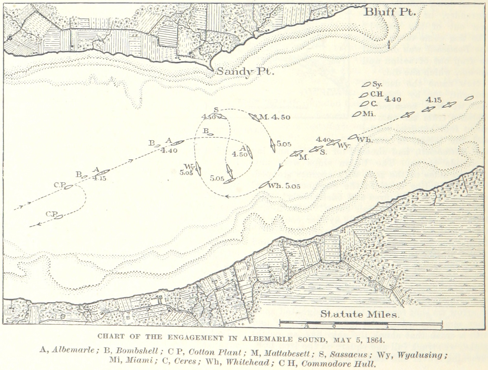 This map shows an engagement on 5 May 1864 in Albemarle Sound between the Confederate ram CSS Albemarle and support ships, and four Union gunboats.